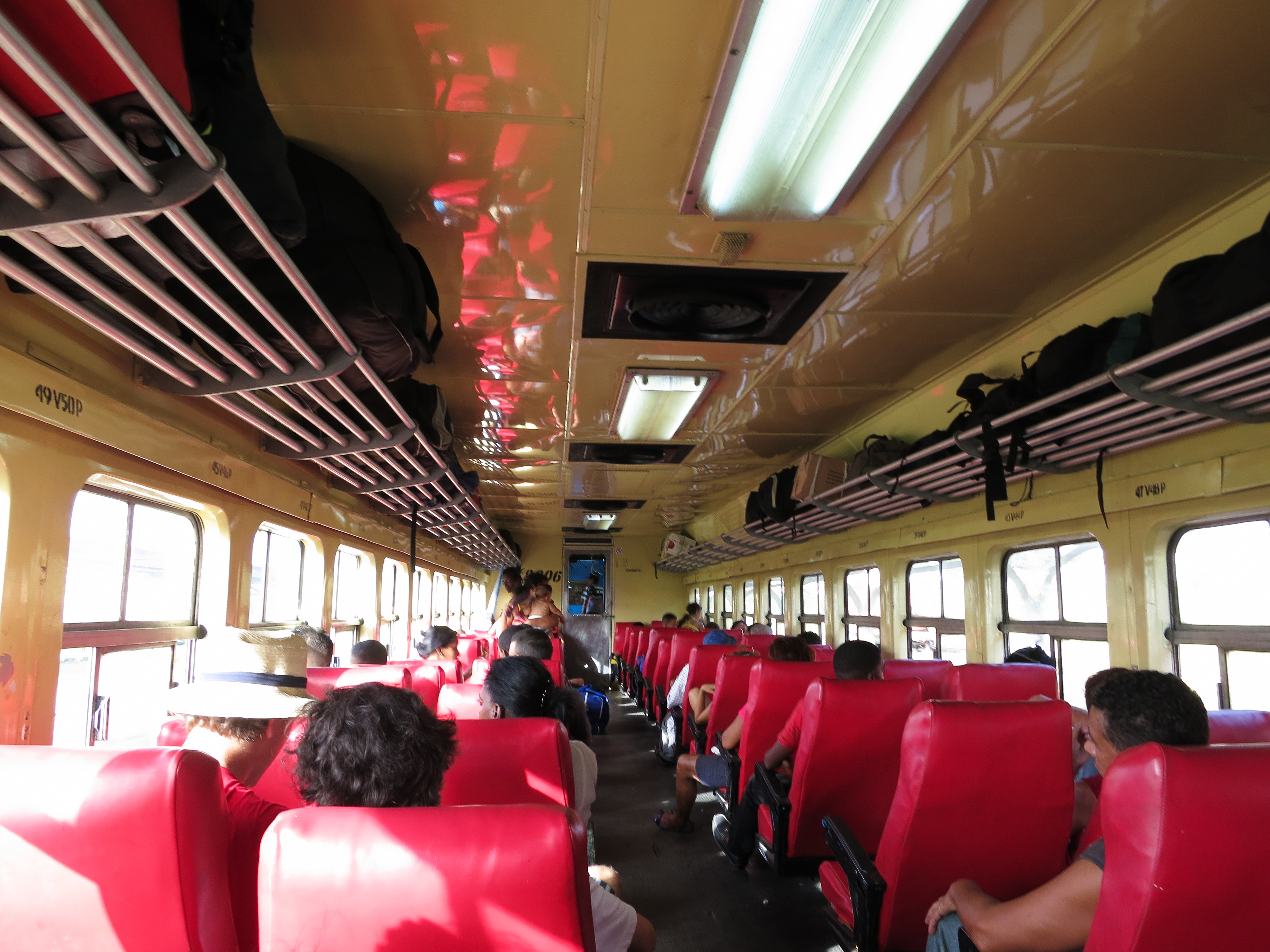 Cuban train (interieur).